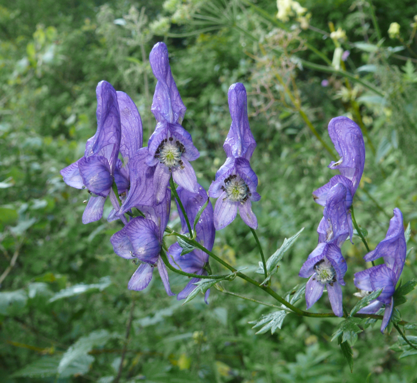 Aconitum variegatum, Härtsfeld, Germany